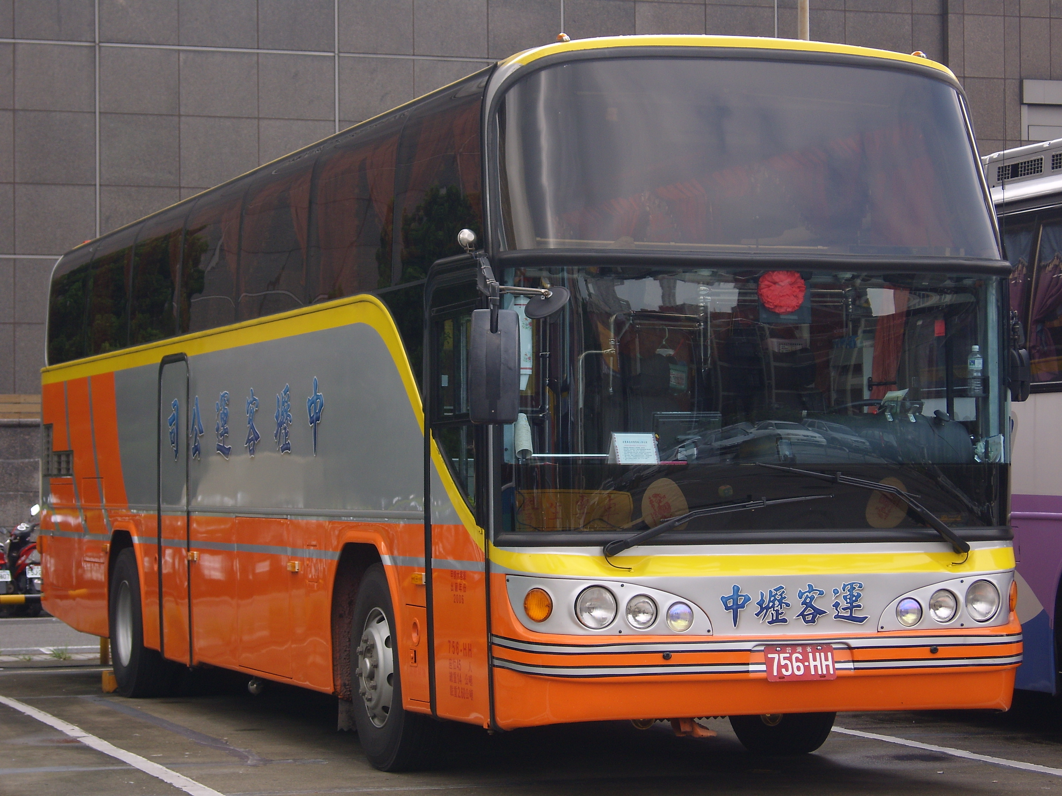 A HINO ERK1JRL Bus by Chung Li Bus Co., Ltd.